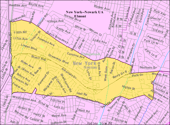 U.S. Census 2000 reference map for North Valley Stream, New York